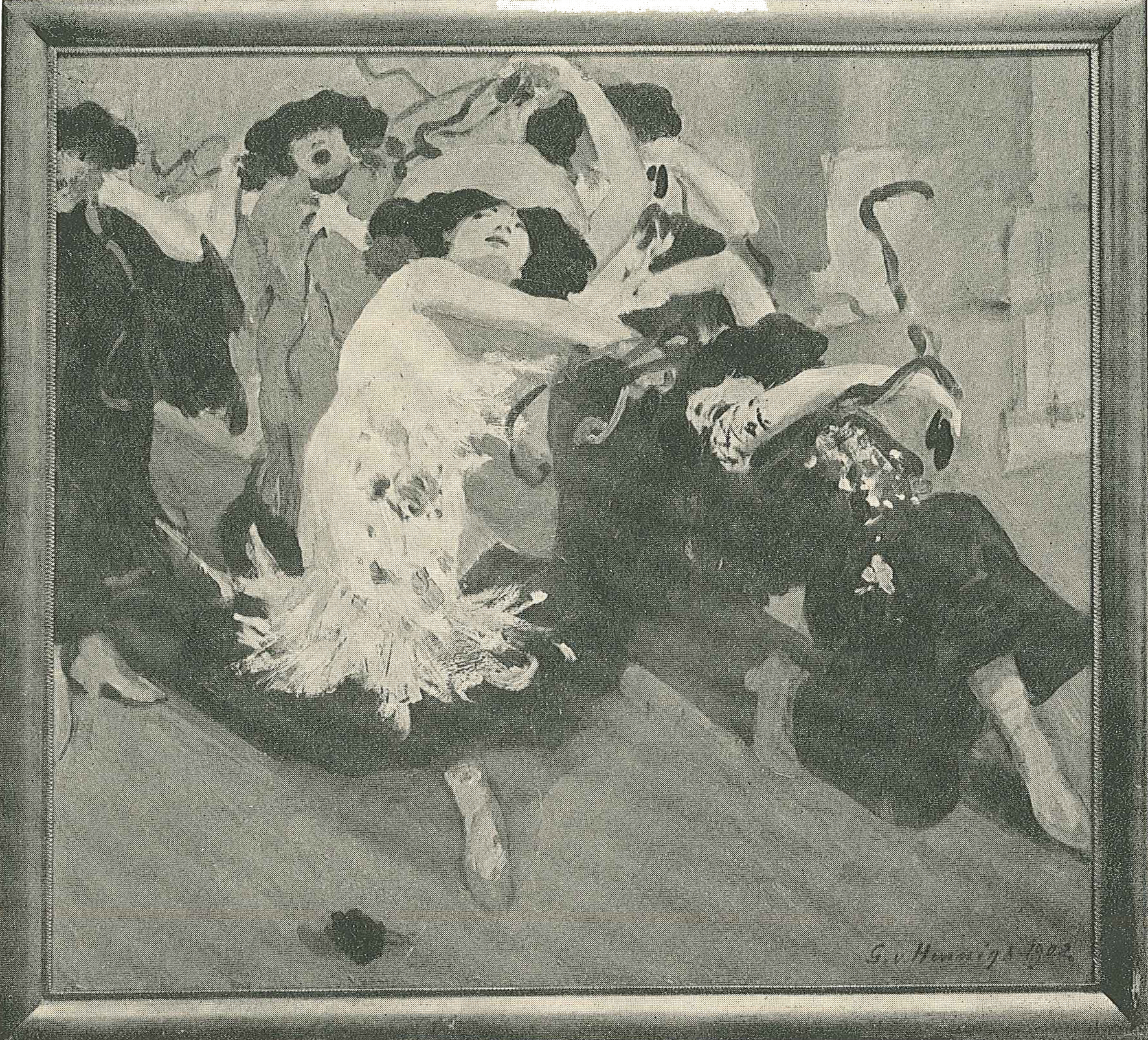 "Spanska danserskor" (Spanish dancers), oil painting from 1902 by Swedish artist Gösta von Hennigs (1866-1941)